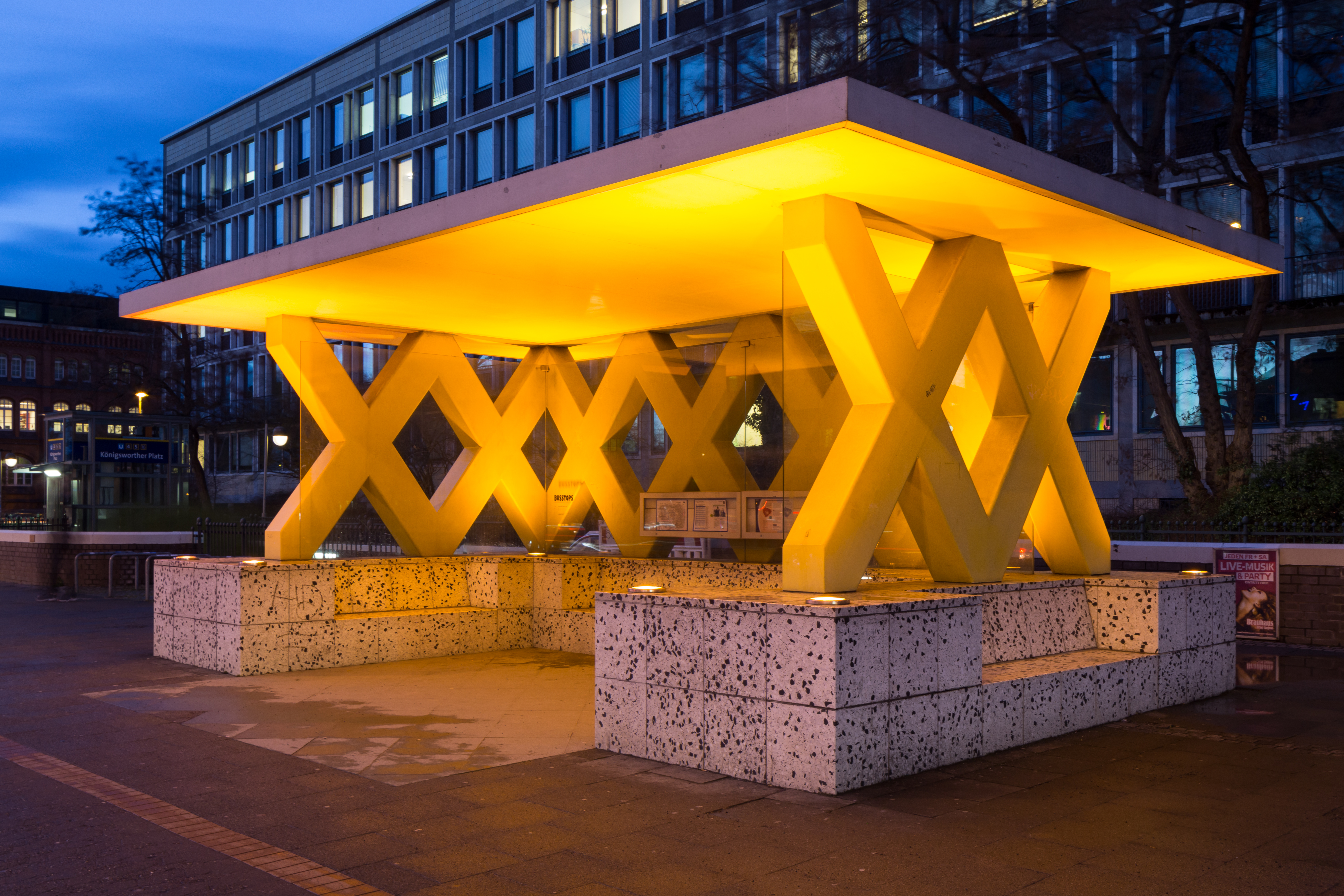 Bus station Koenigsworther Platz, designed by Ettore Sottsass as part of the BUSSTOPS art project. The station is located at Koenigsworther Platz square in Mitte quarter of Hannover, Germany.